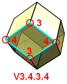 Rhombic dodecahedron, rendered in povray 3.5. See also :Image:Rhombic_dodecahedra.png.